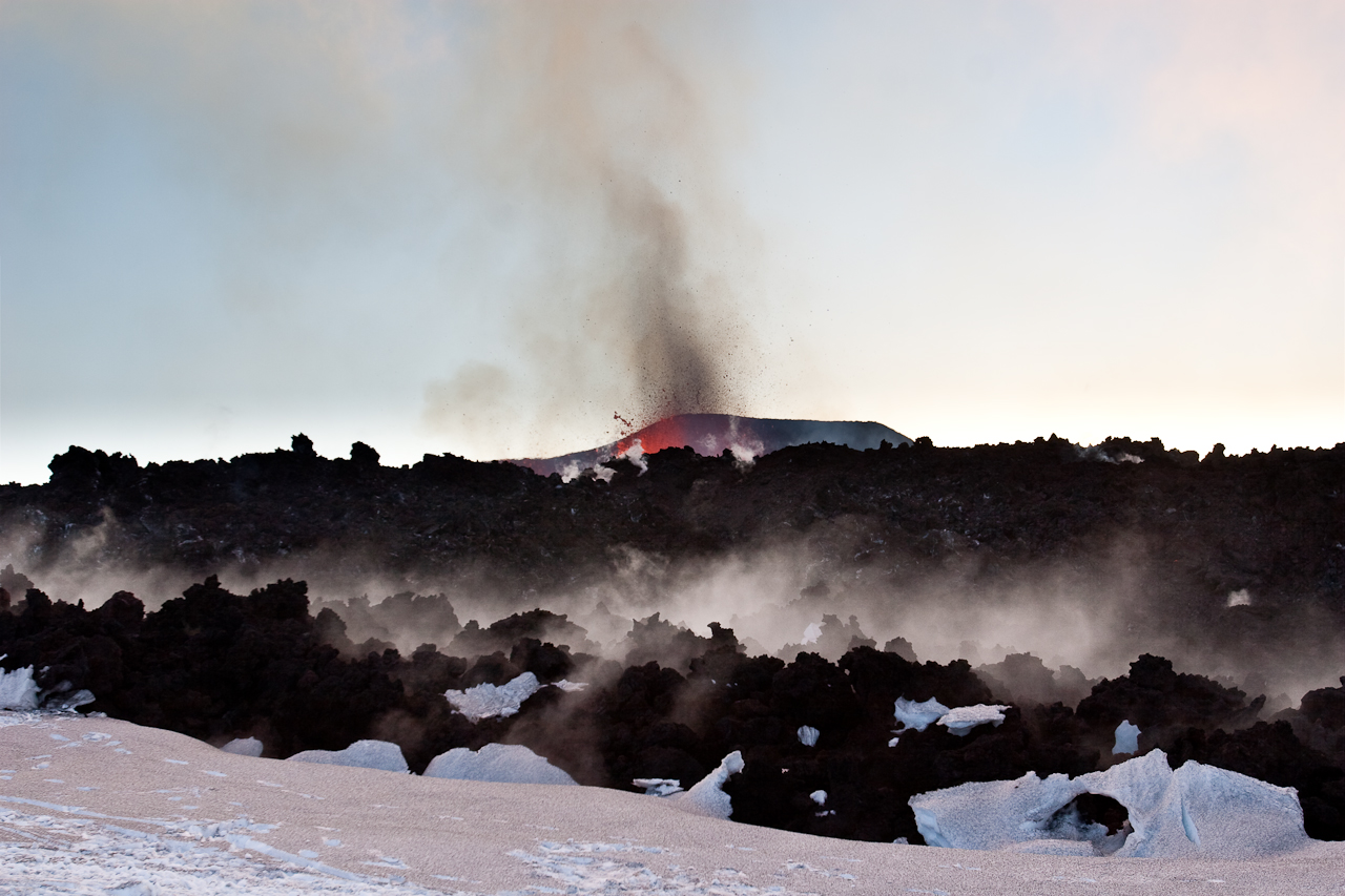 Volcanic eruption at Fimmvörðuháls in Iceland on its 6th day